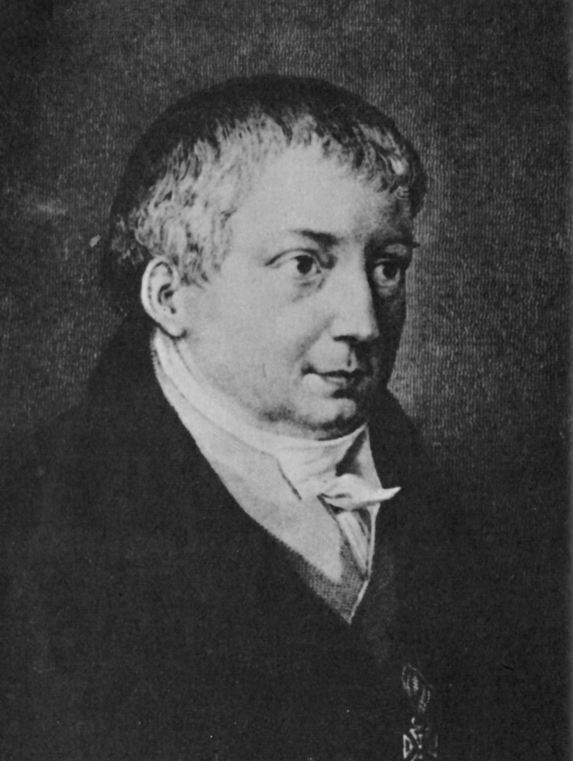 Friedrich Schlegel among 1829 by J. Axmann